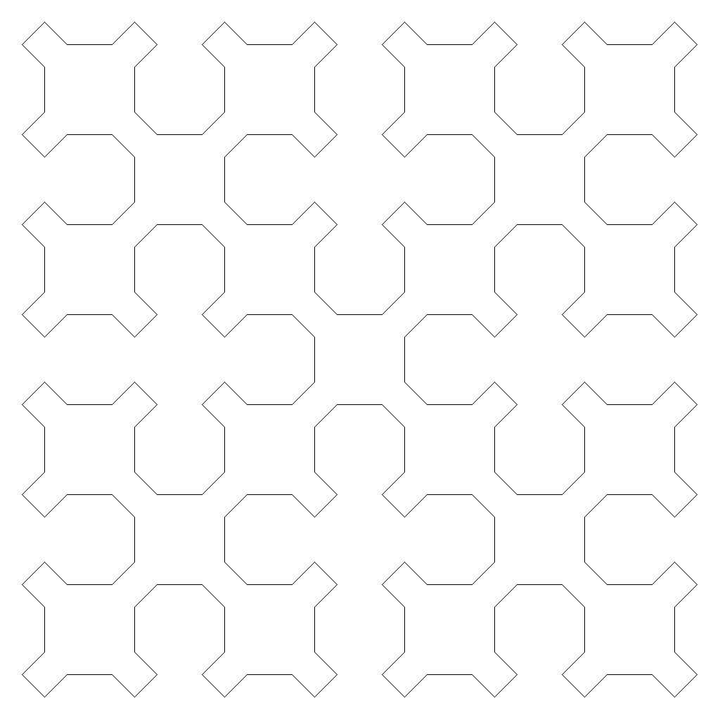 Sierpinski Curve L3